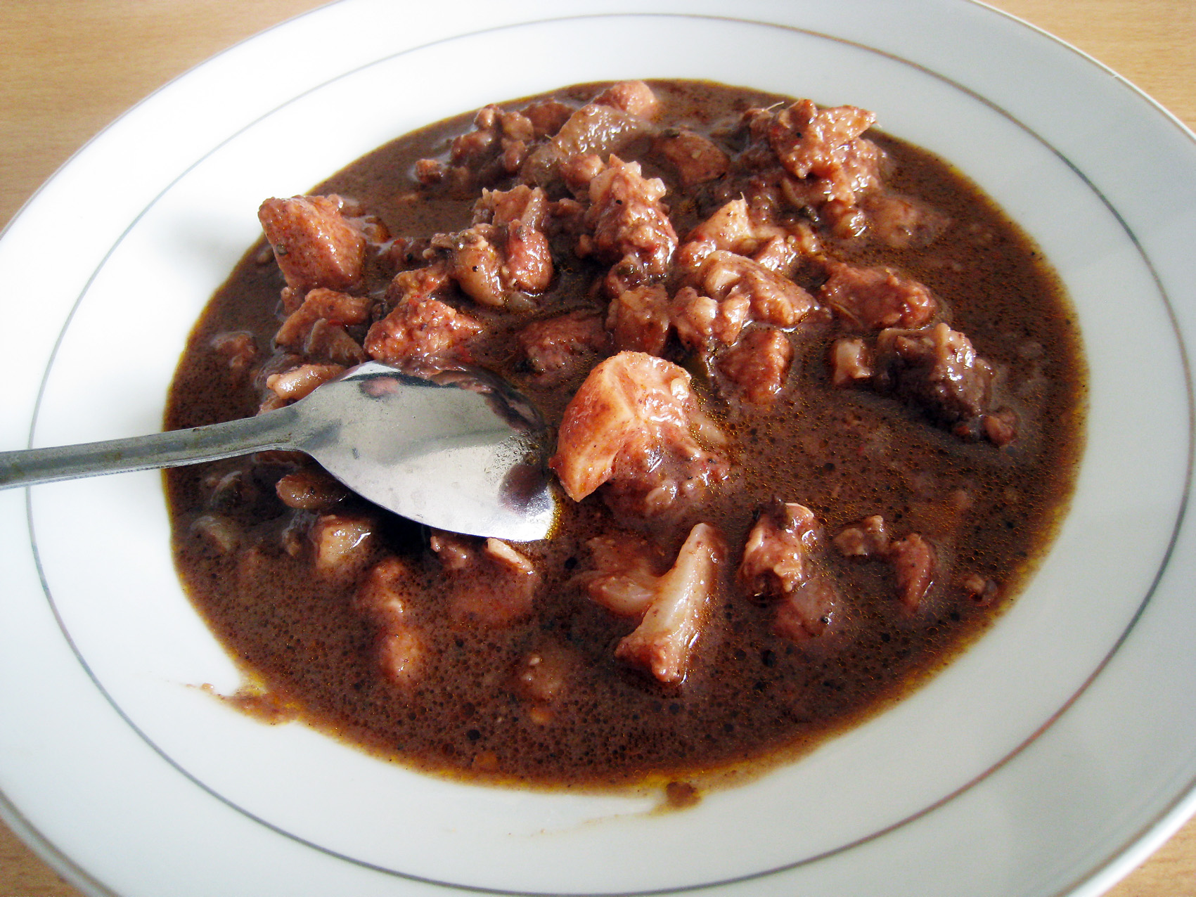 Batak cuisine, the saksang pork stew cooked in its blood and spices.